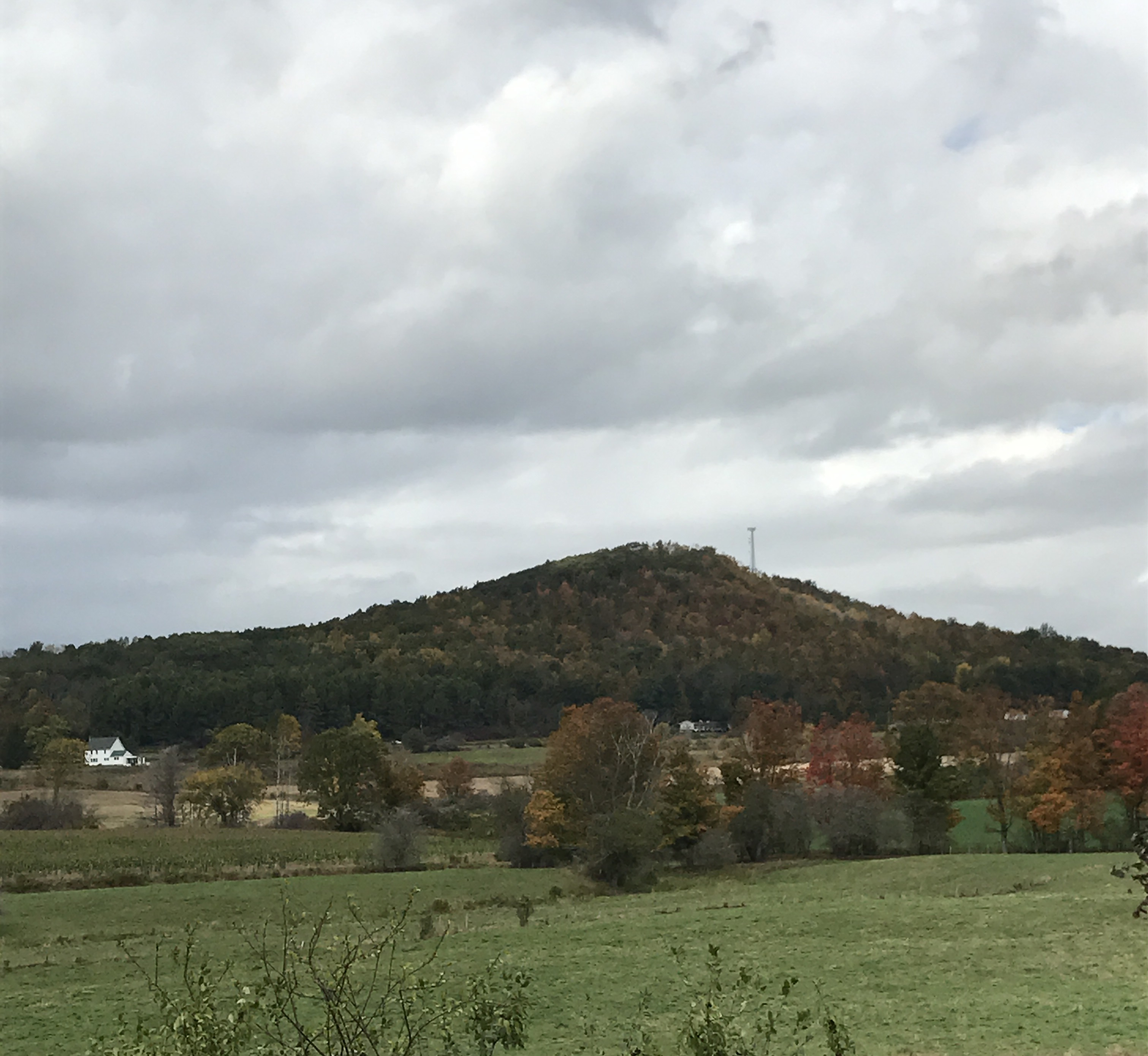 Pine Cobble (New York) in the fall Otsego County, New York